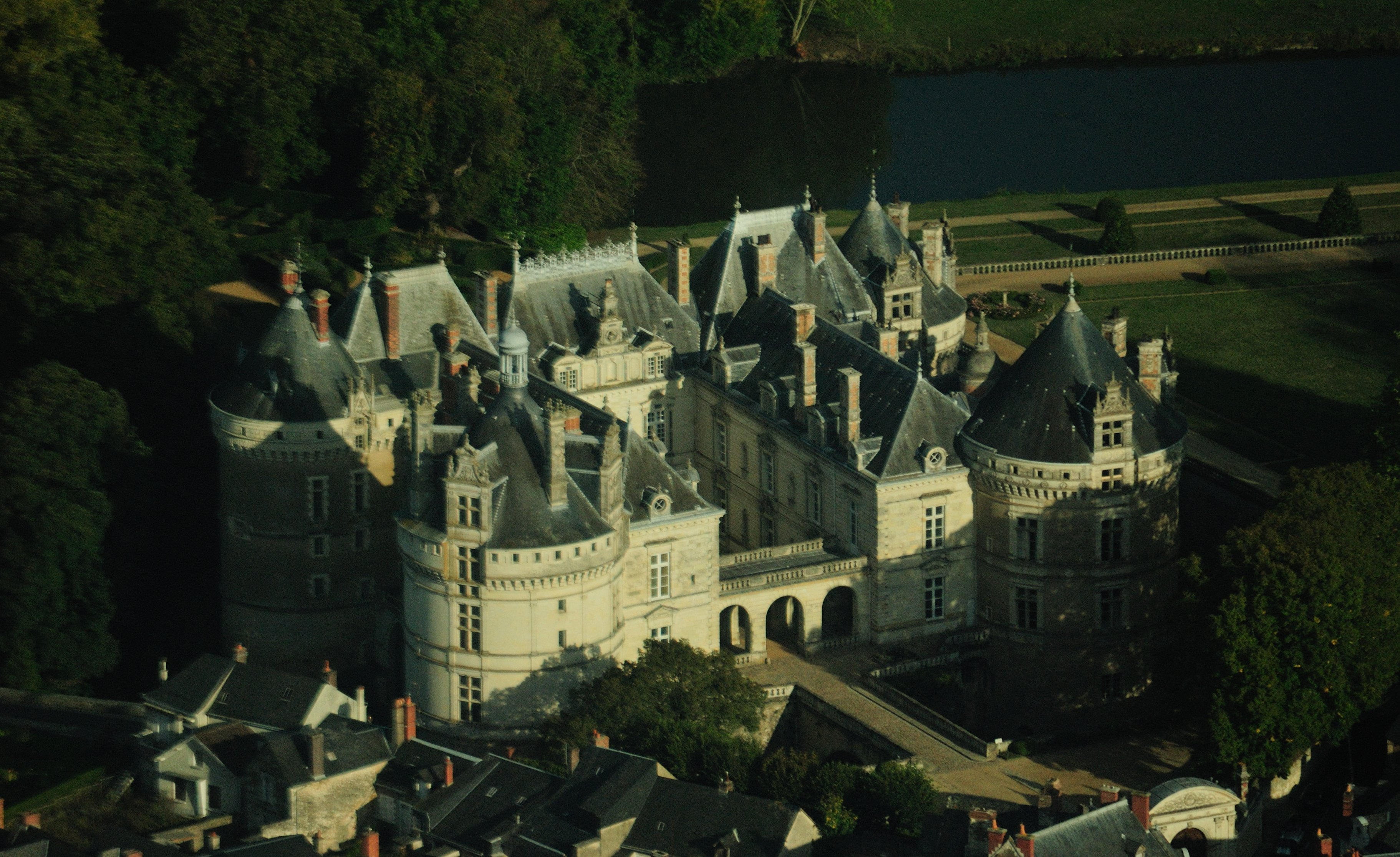 Aerial view of Le Lude castle (Sarthe department, France). Nikon D60 f=200mm f/6.3 at 1/2500s ISO 400. Processed using Nikon ViewNX 1.3.0 and GIMP 2.6.6.